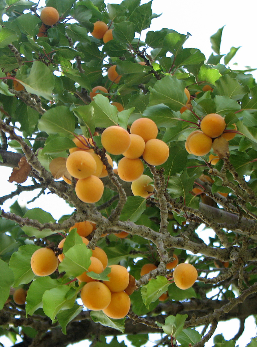 Prunus armeniaca (Apricot) branch with fruit. Nubra Valley, Ladakh, India.